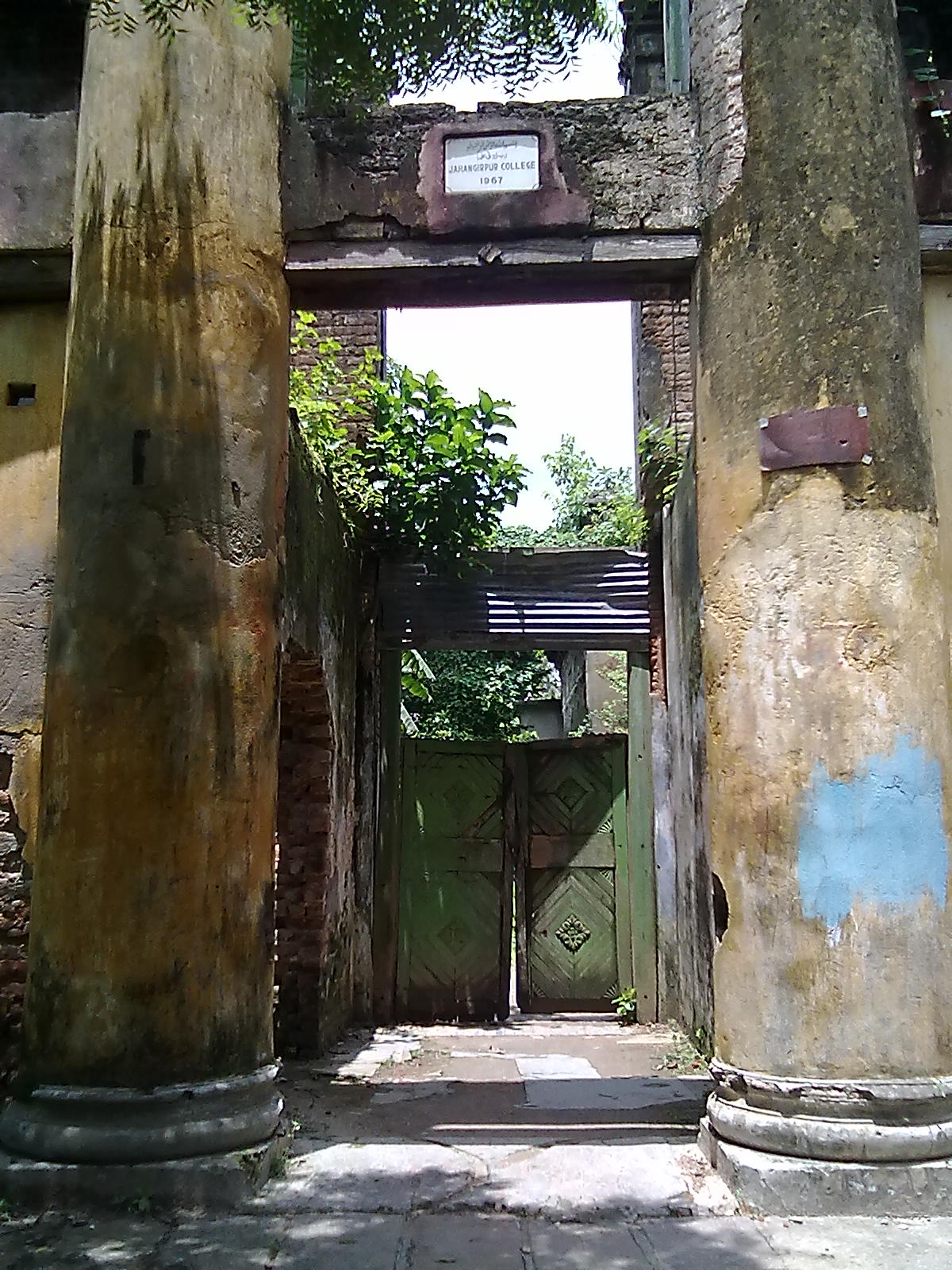 Old Campus Building Entrance Gate